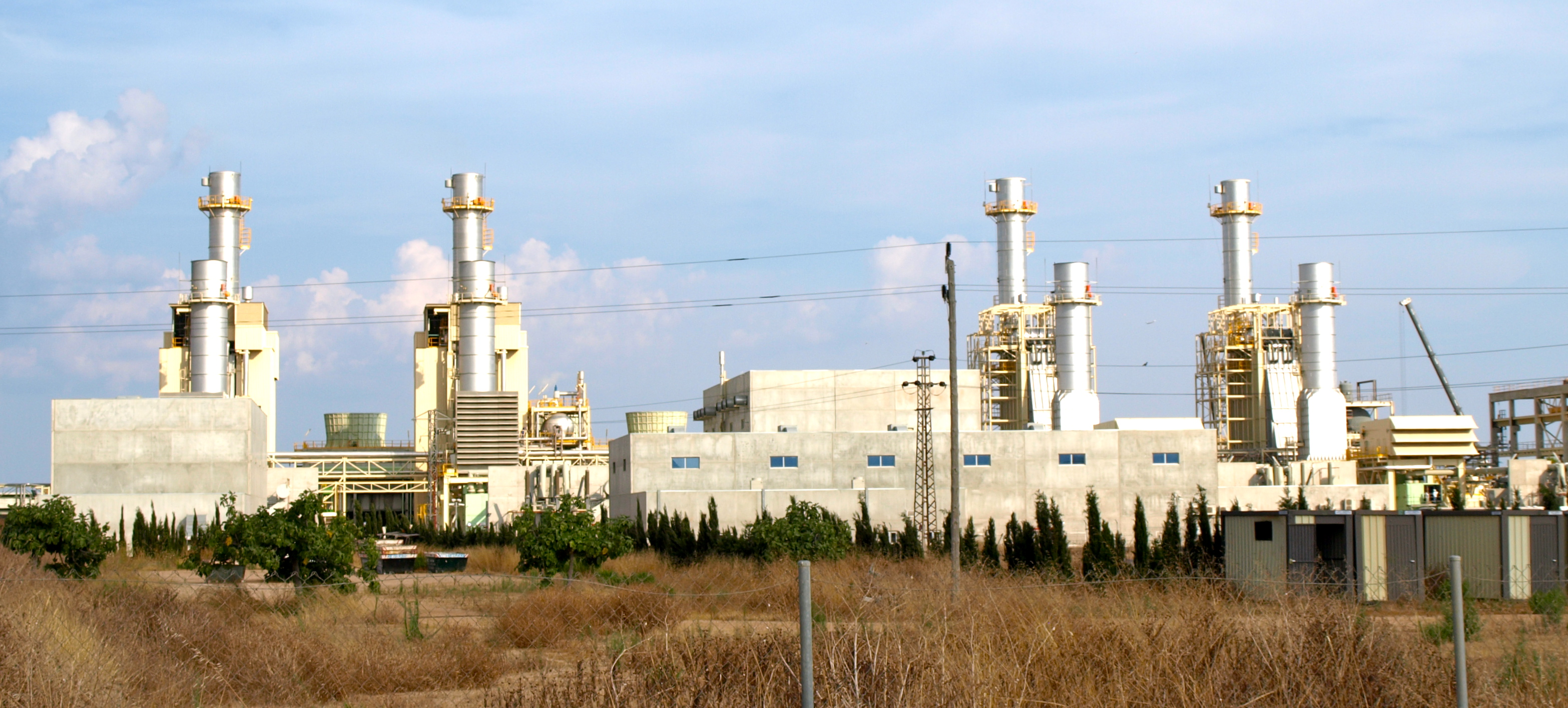 Cas Tresorer combined Cycle Power Plant Place Lloc/Place: Palma